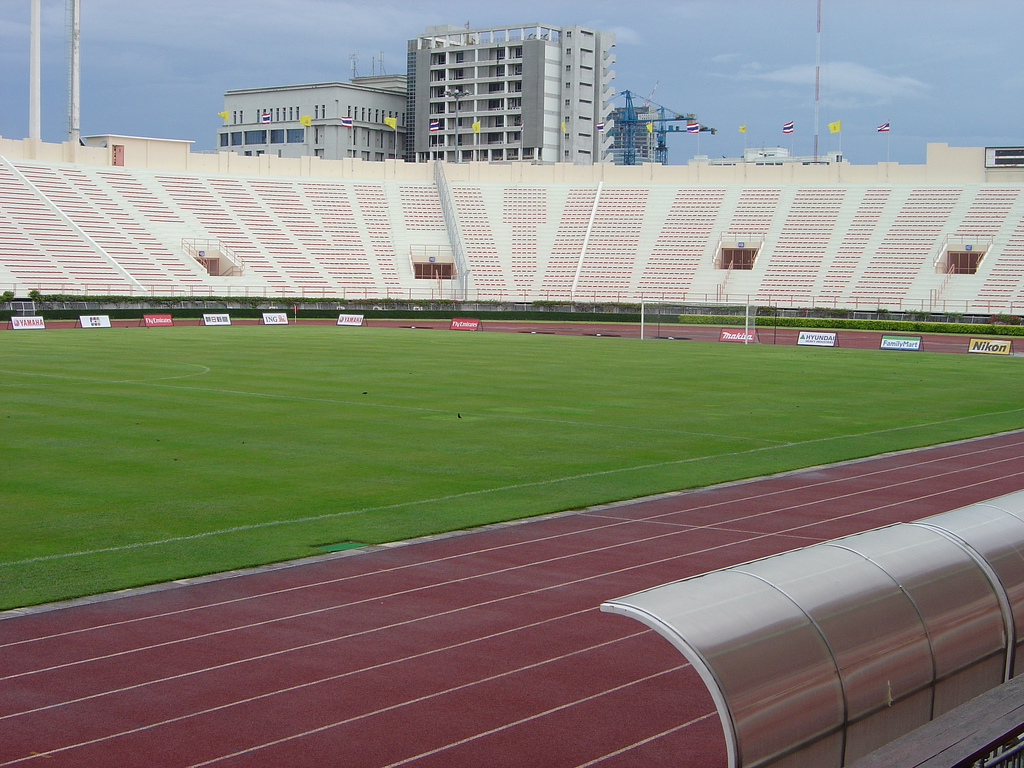 Interior of the Suphachalasai Stadium, Bangkok